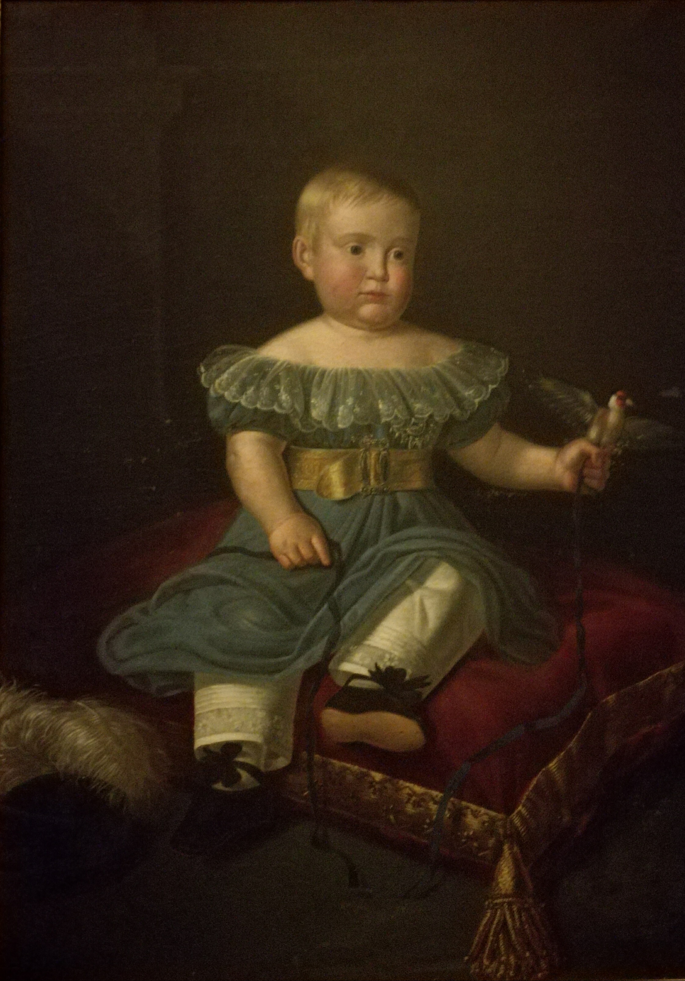 Ferdinando II as a child, portrait of an unknown author placed in Reggia of Caserta